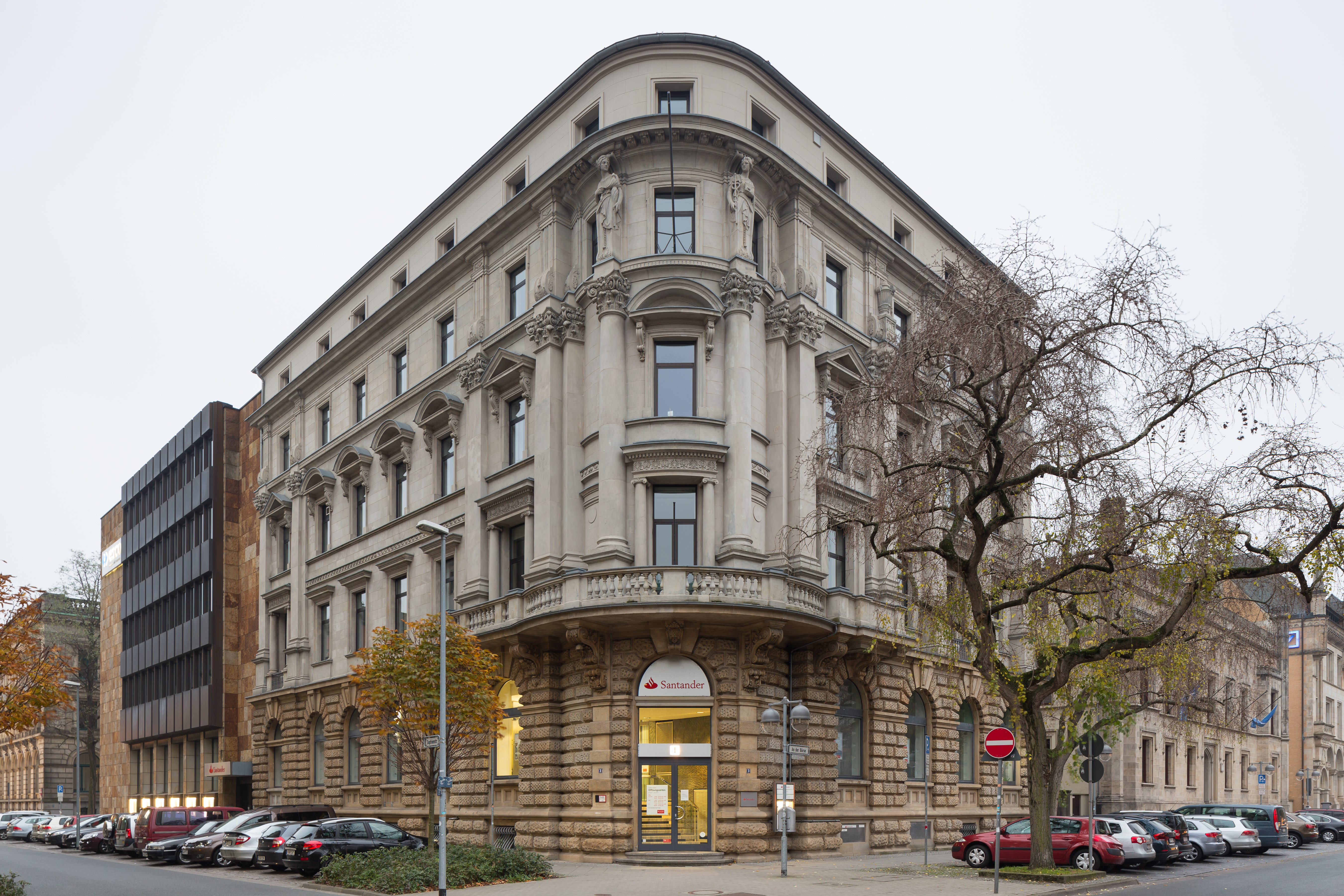 Office building located at An der Boerse no. located in Mitte district of Hannover, Germany.